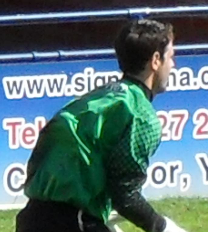 Steven Drench